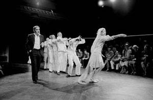 Tadeusz Kantor